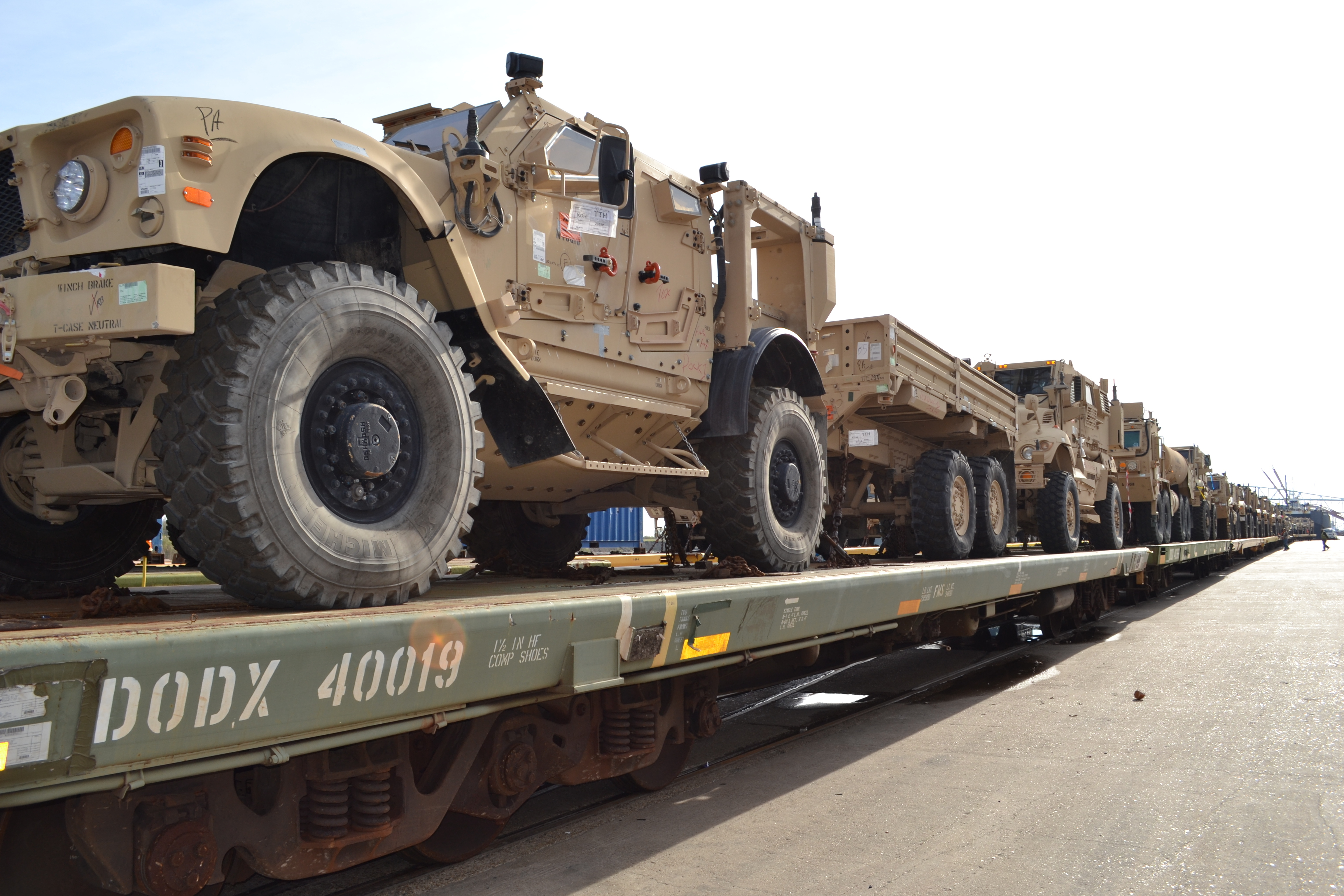 Military Surface Deployment and Distribution Command, 597th Transportation Brigade, 842nd Trans. Battalion, orchestrates simultaneous terminal operations for the loading of unit equipment headed overseas and the offloading of cargo returning from Afghanistan at the Port of Beaumont and at Port of Port Arthur, Texas, Dec. 8-20, 2013. (Photo by Sarah Garner, SDDC, Headquarters)